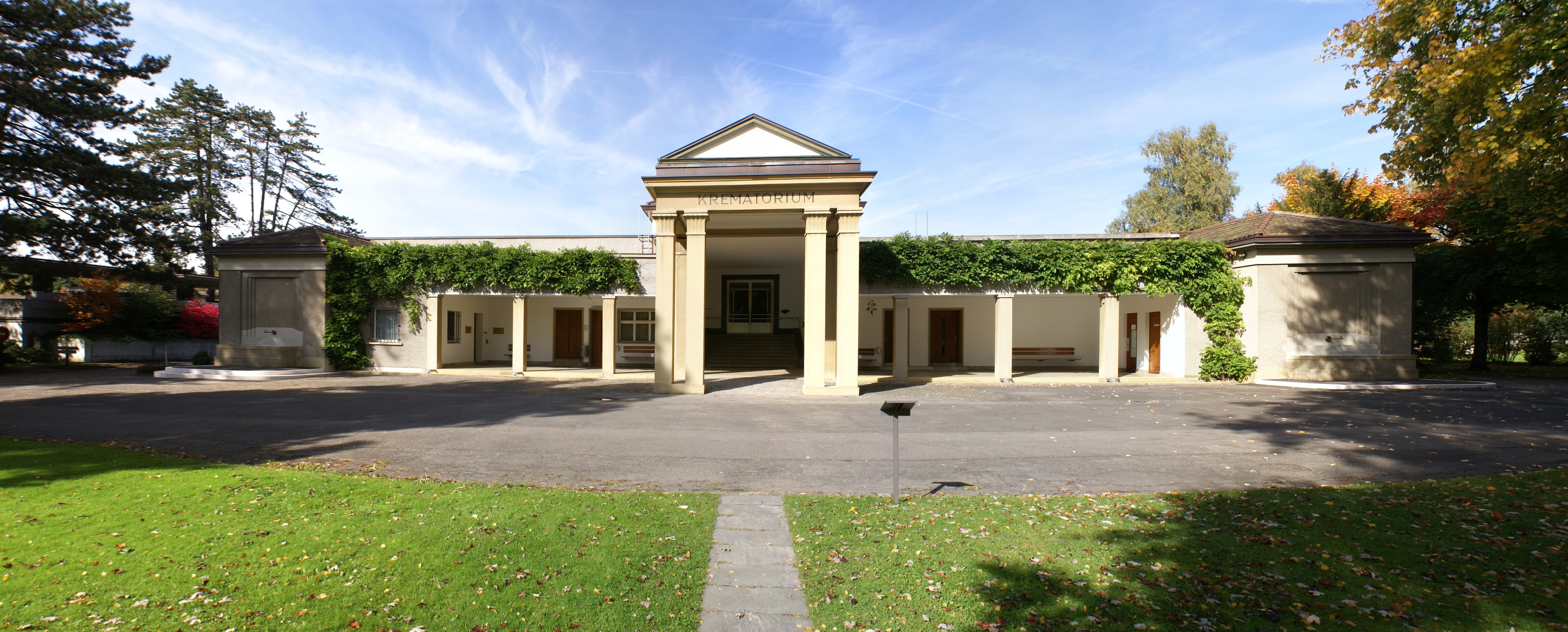 Crematorium of the Bremgarten cemetary, Berne, Switzerland. Otto Lutstorf and Ludwig Mathys, 1907-08.